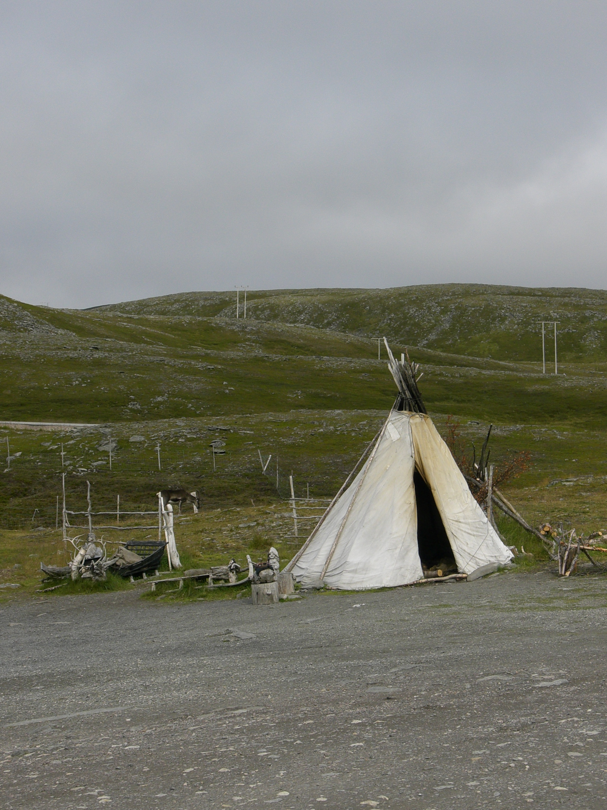 Traditional home of Saami people in Norway.